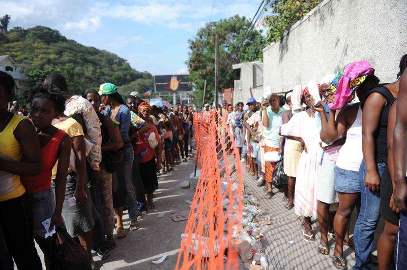 Earthquake survivors receive 50-pound bags of rice from the Irish nongovernmental and international humanitarian organization GOAL Jan. 31, 2010, in Canape Vert, Haiti. This is one of 16 locations in Haiti at which food is being distributed.